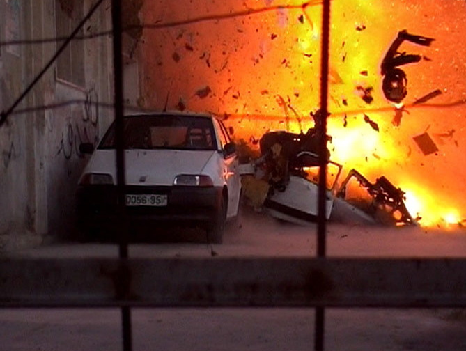 05/13/2006 During an IDF operation in the city of Nablus, forces discovered an explosive belt weighing 7-10 kg, which was to be used in a terror attack in Israel. The explosive device was found along with four pipe bombs in a routine search of a Palestinian cab at a checkpoint north of Ramallah. The explosives were detonated in a controlled manner by Border Patrol bomb experts. The Israel Defense Forces Facebook The Israel Defense Forces blog Follow us on Twitter